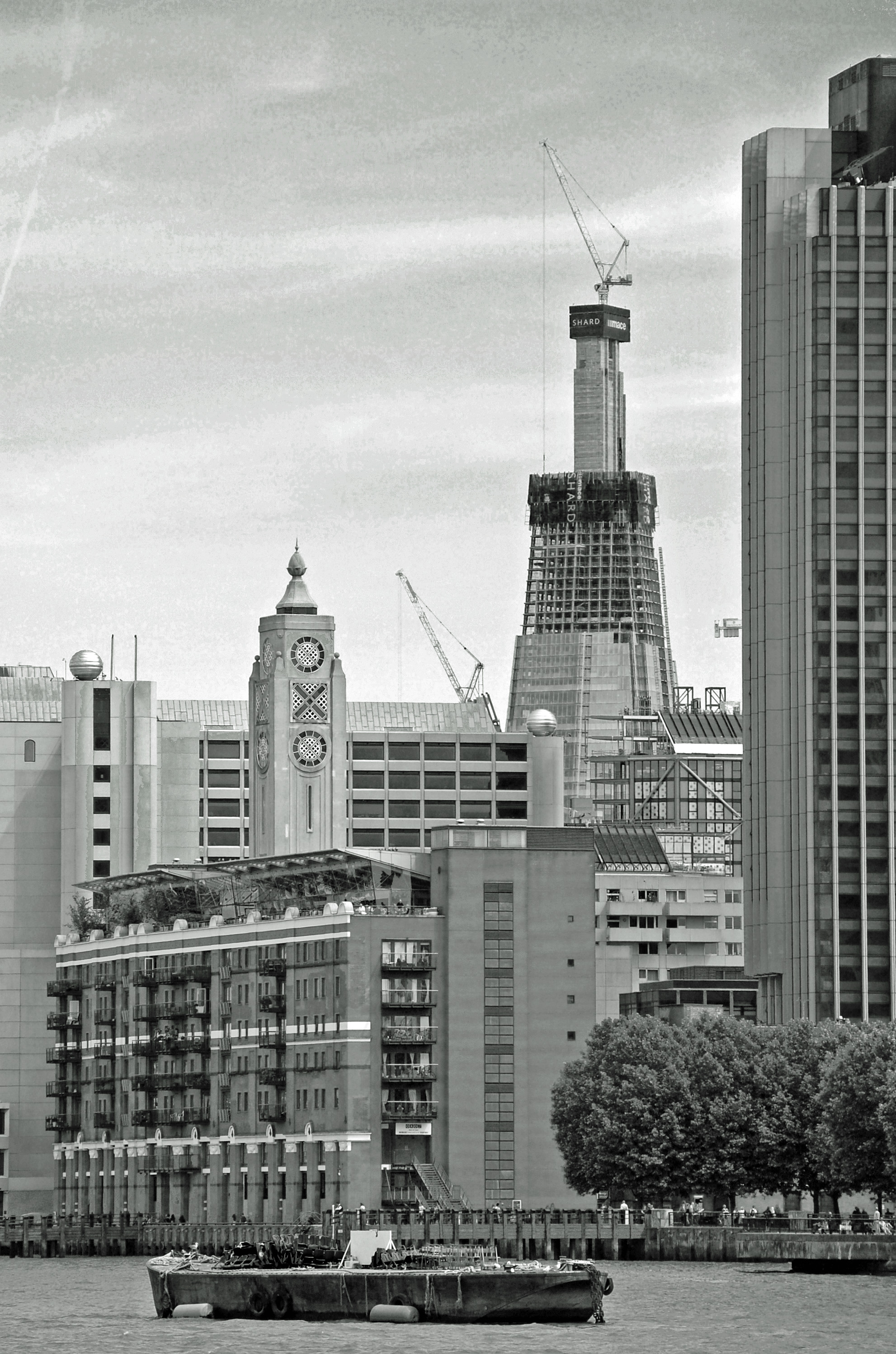 The Oxo Tower must have looked pretty tall when it was built at the end of the 19th century, but it shrinks in comparison with the Shard and the other city buildings now.